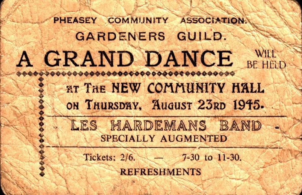 Dance ticket A Grand Dance - Pheasey Community Association - 1945